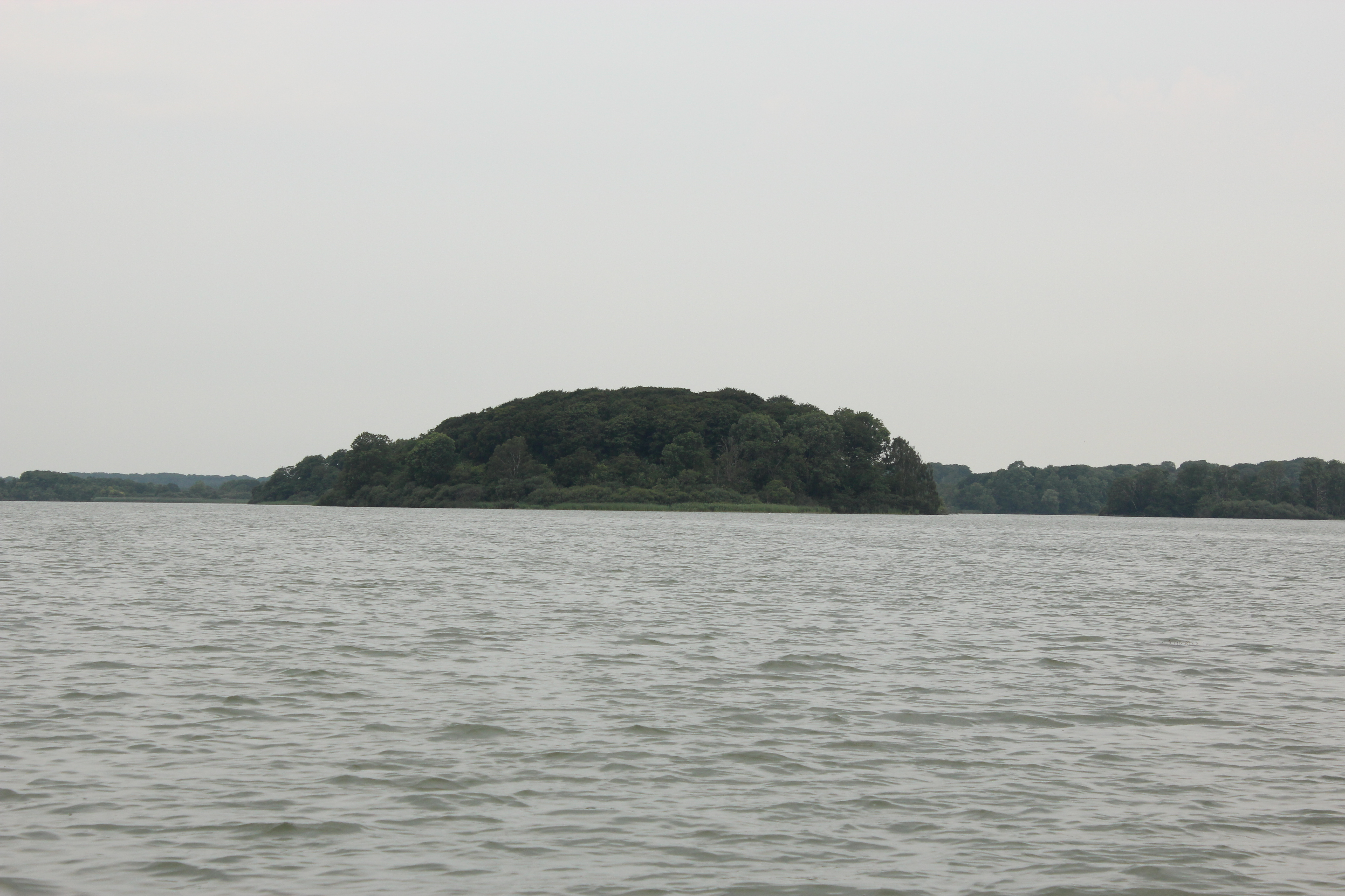 The Island Hestø (Horse Island) in Maribo Søndersø seen from the boat "Anemonen".